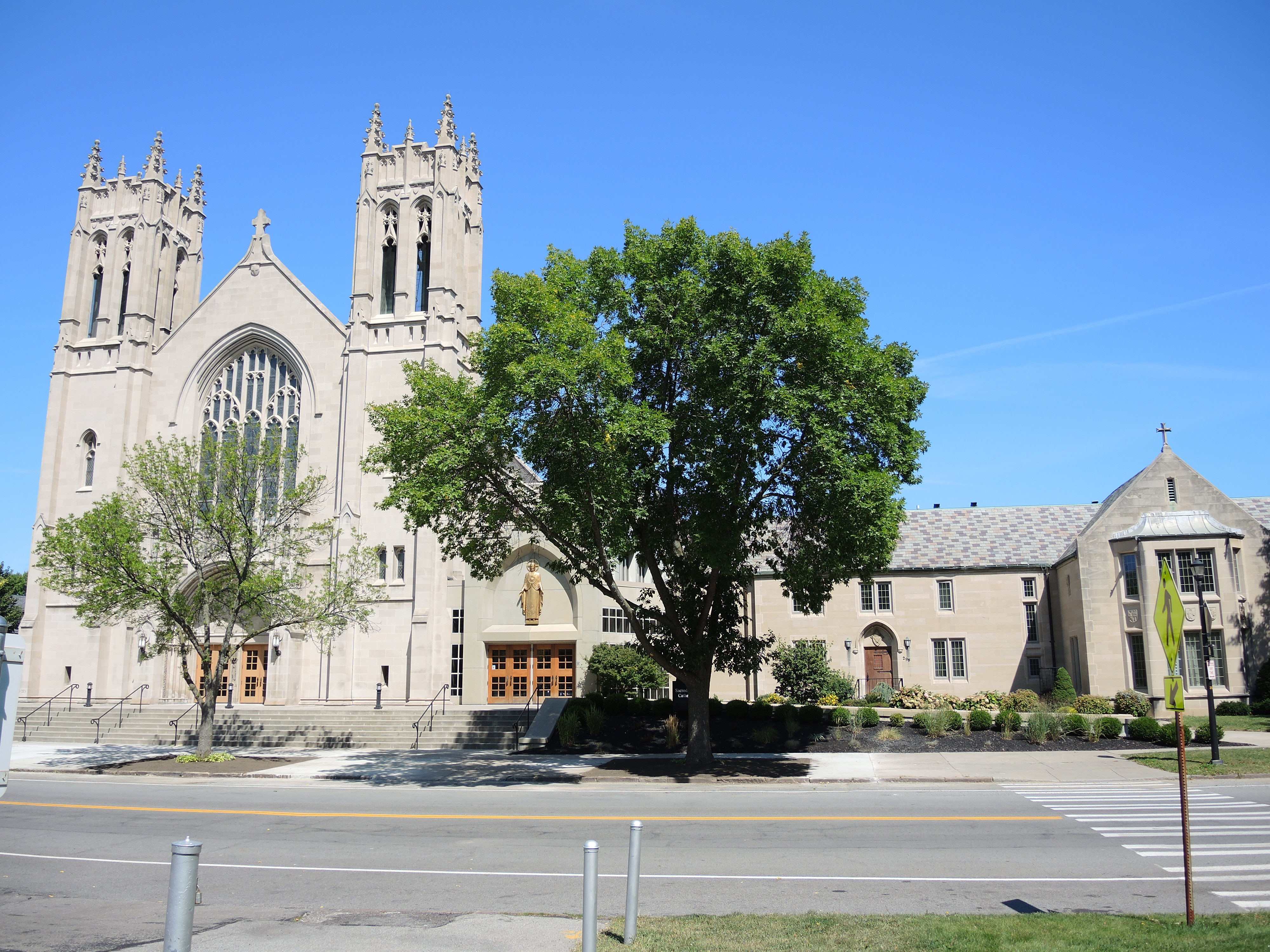 View of the Sacred Heart Cathedral (Rochester, New York) complex in Rochester, New York